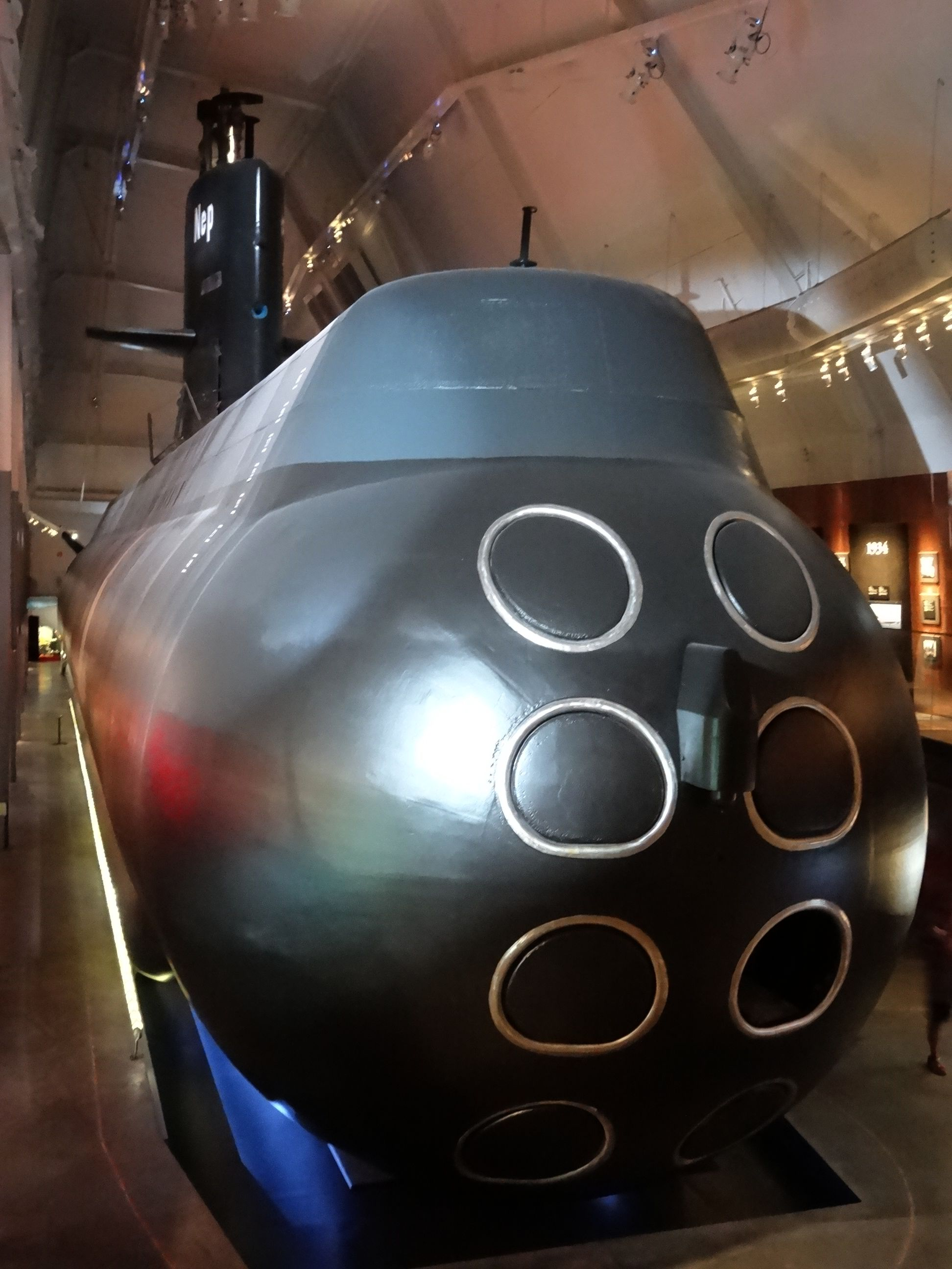 The bow of the Swedish submarine HMS Neptun, 1000 metric tons weight and commissioned in 1980. On display in the submarine hall at Karlskrona Naval Museum.